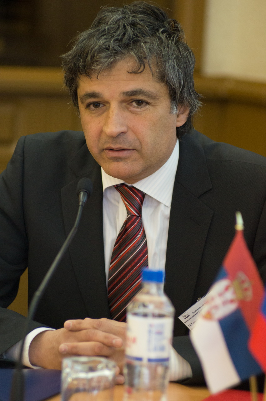 Veroljub at the conference in Moscow